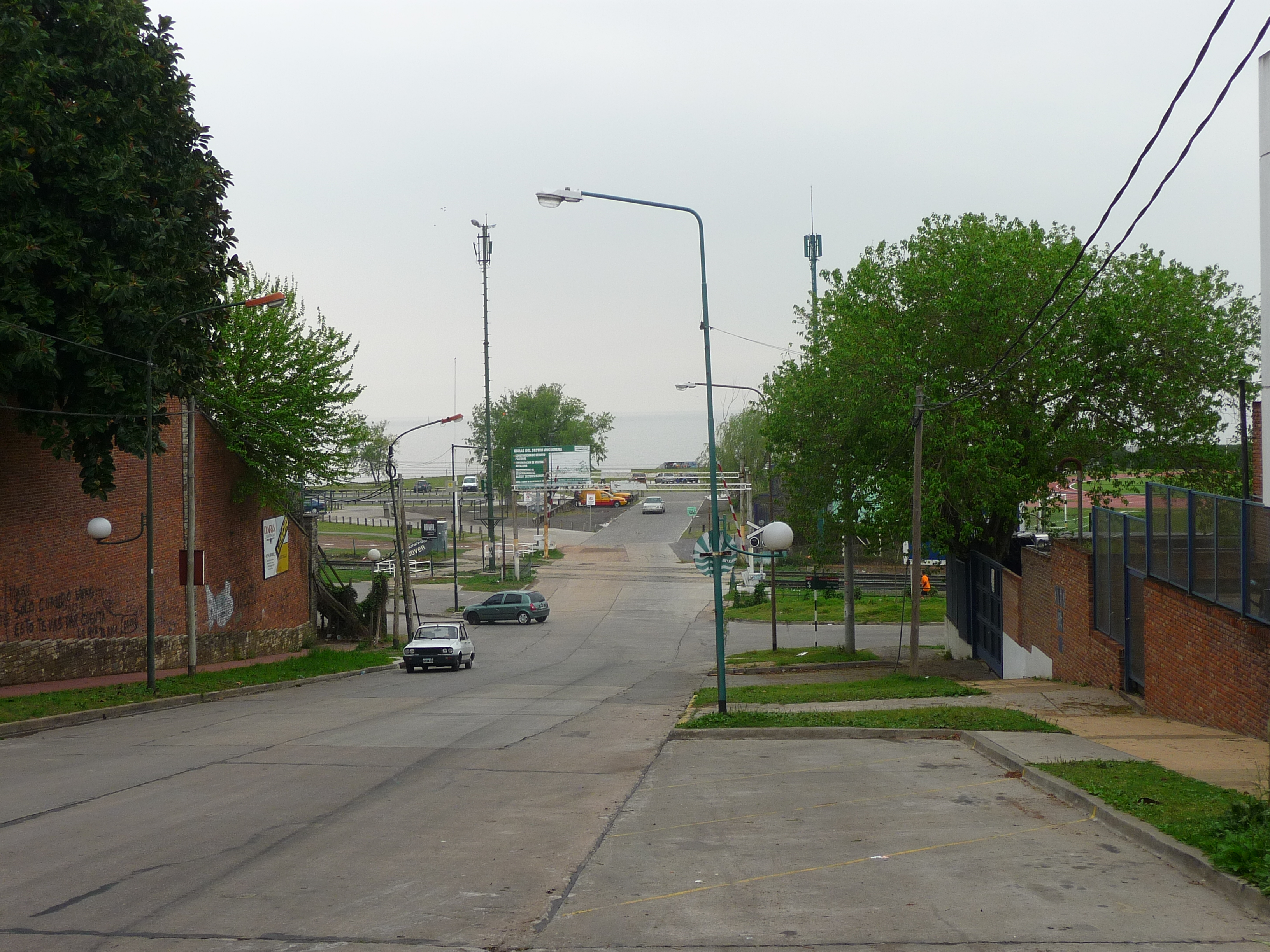 La Lucila, Vicente Lopez, Argentina